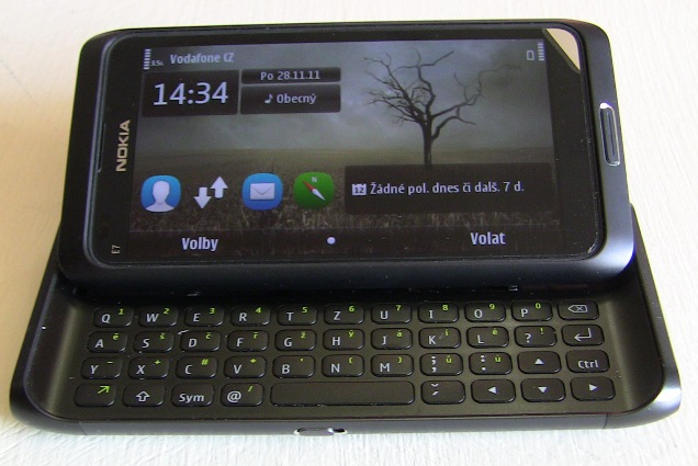 This is picture of mobile phone Nokia E7